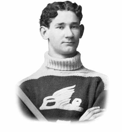 Canadian ice hockey player Oliver Seibert, active in the early 1900s and inducted into the Hockey Hall of Fame.